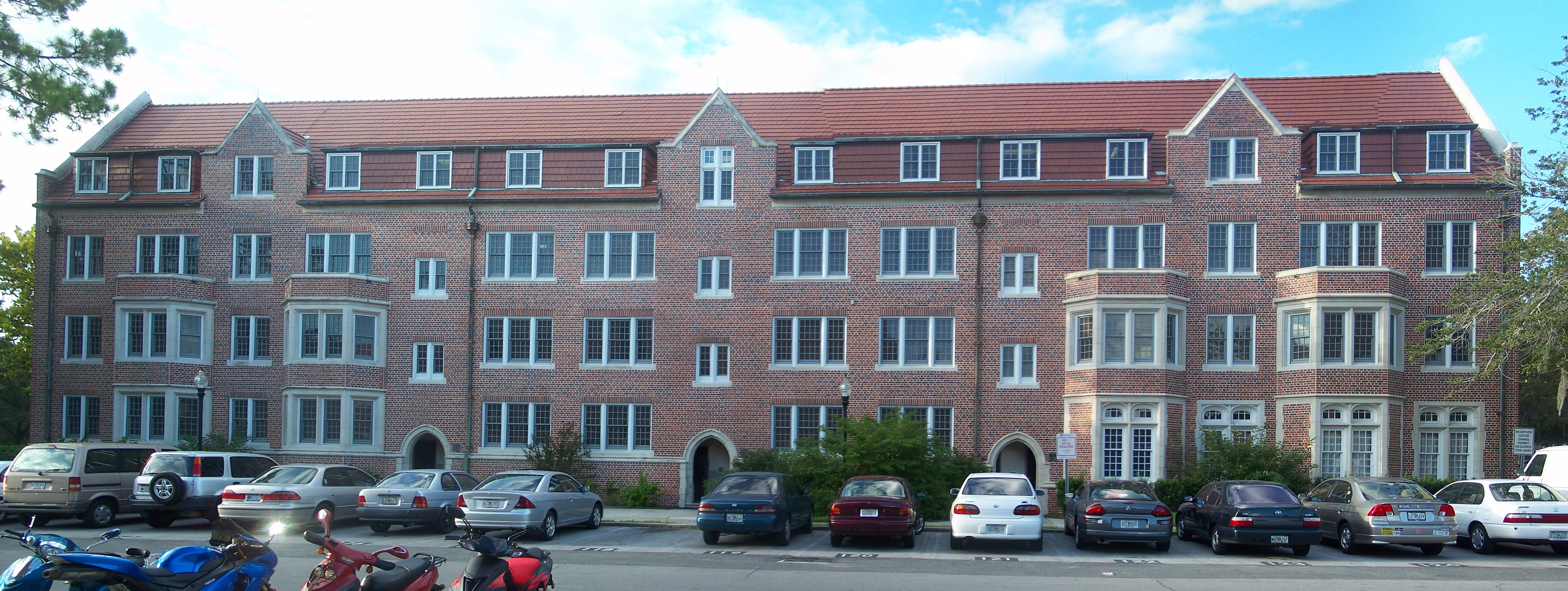 Gainesville, Florida: University of Florida: Murphree Hall